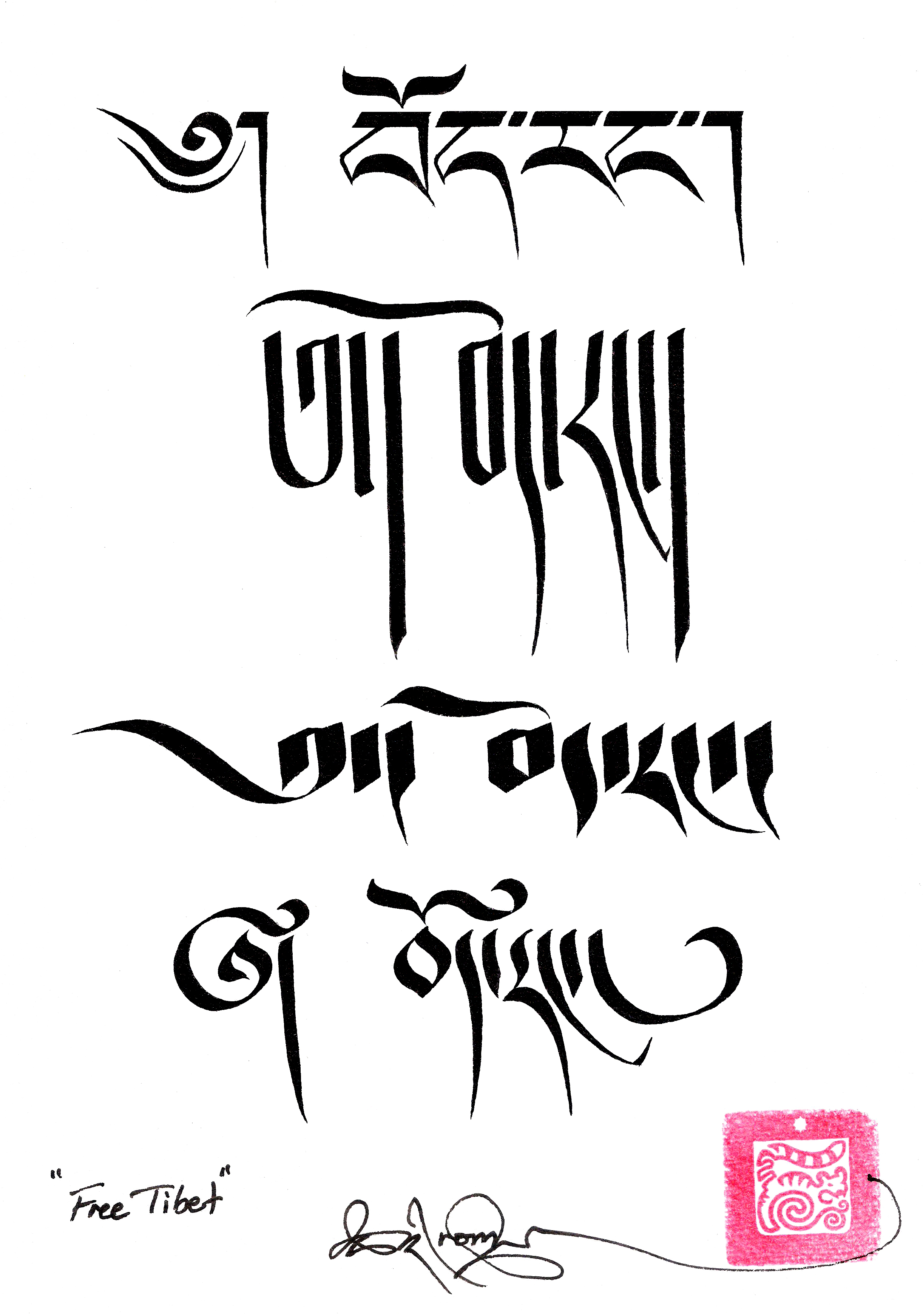 The expression "Free Tibet" in four different Tibetan script styles traditionally and commonly used by Tibetans.